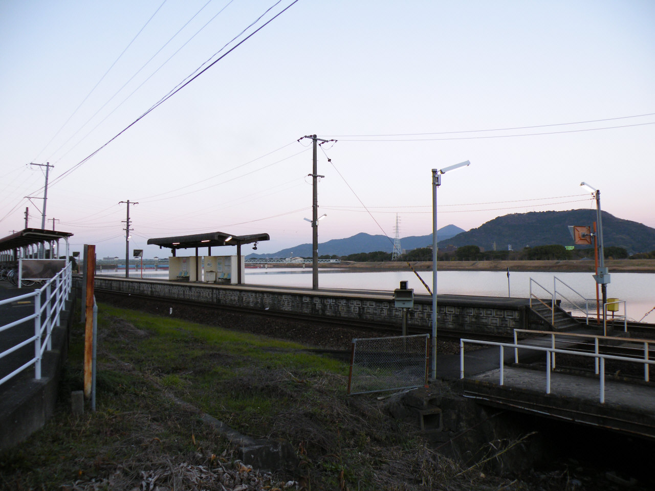 JRKyushu Onizuka Station(Karatsu Line)